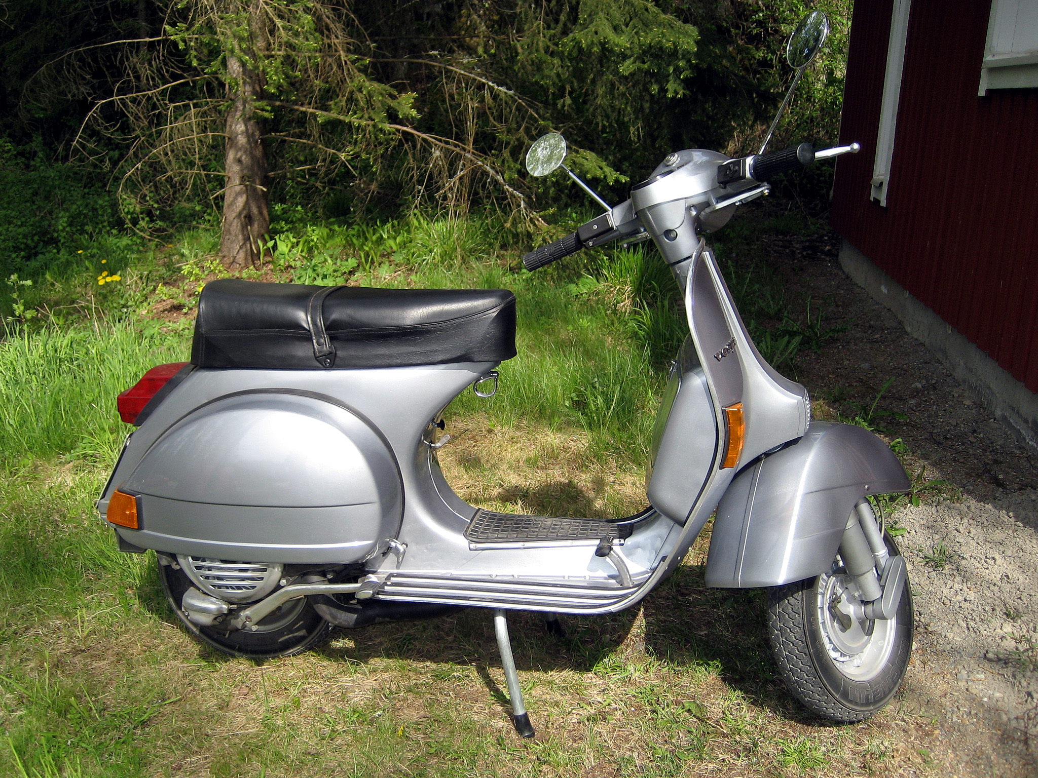 Piaggio's Vespa P 200 E motor scooter (1981). This is an early example of the successful P Series (or Nuova Linea) introduced in 1977 and discontinued in 2007.